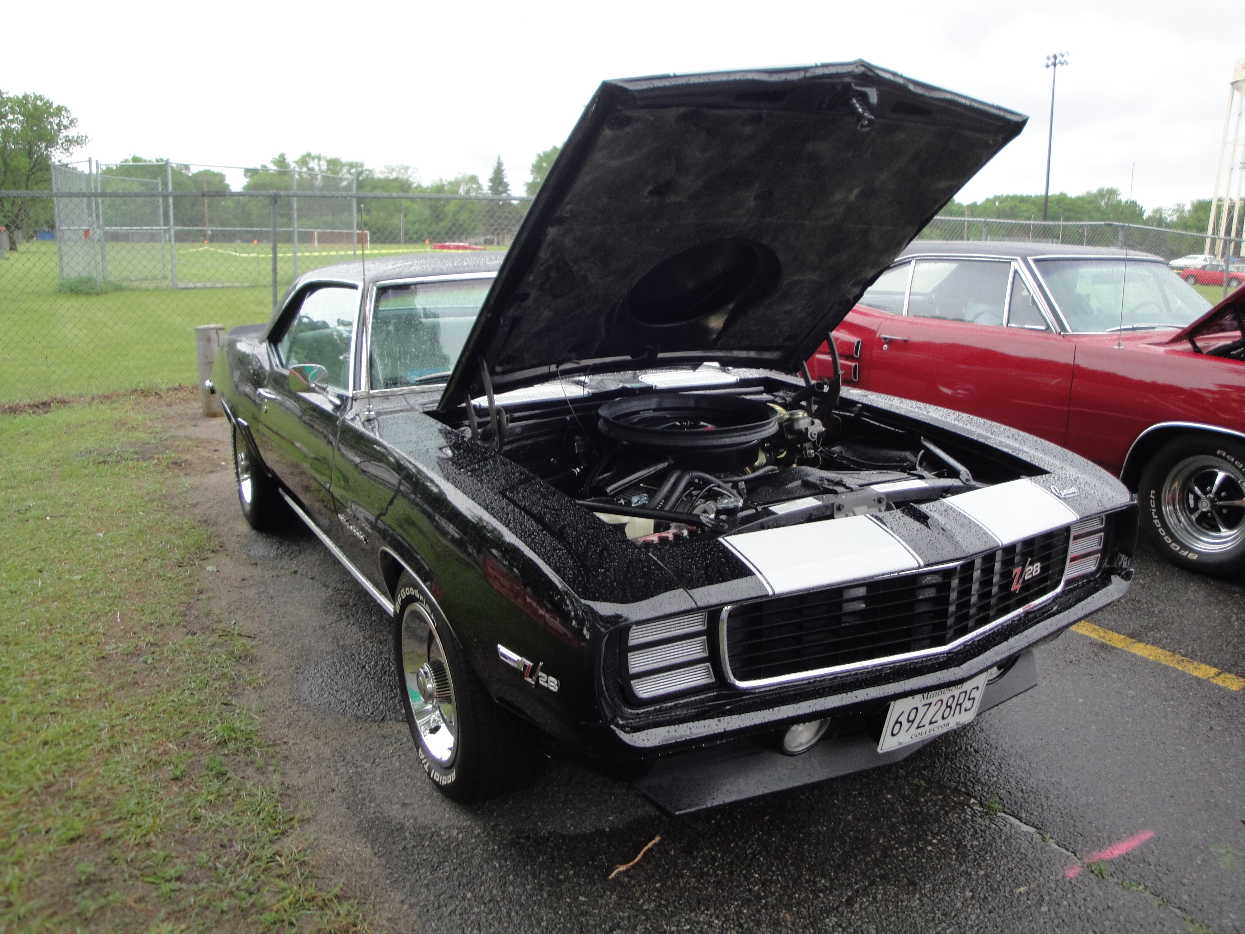 The weather was not completely cooperative for the 32nd Annual Willmar Car Show May 20, 2012